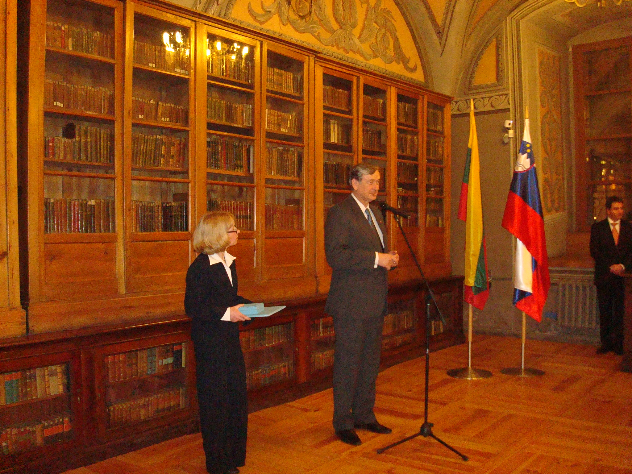 Ass. prof. Jelena Konickaja and President of Slovenia Danilo Türk in the Hall of Pranciškus SmuglevičiusLietuvių: Docentė Jelena Konickaja ir Slovėnijos prezidentas Danilo Türk VU bibliotekos Smuglevičiaus salėje